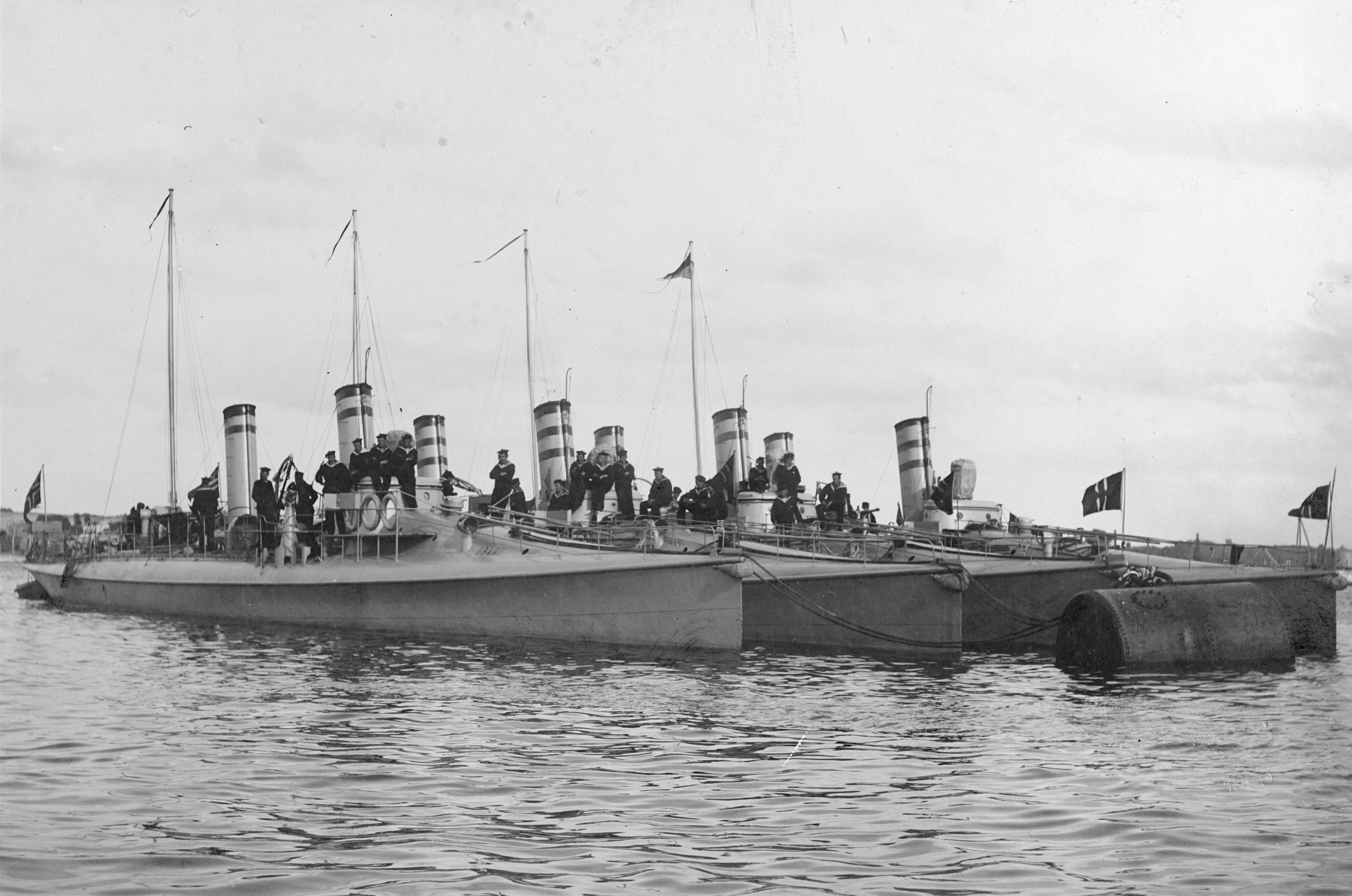 Norwegian First Class Torpedo Boat Brand (1899–1940, on the left with three sisters) in Kiel 1900, later German torpedo boat Tarantel, NB19 and V5519 (1940–1945), scrapped in 1945